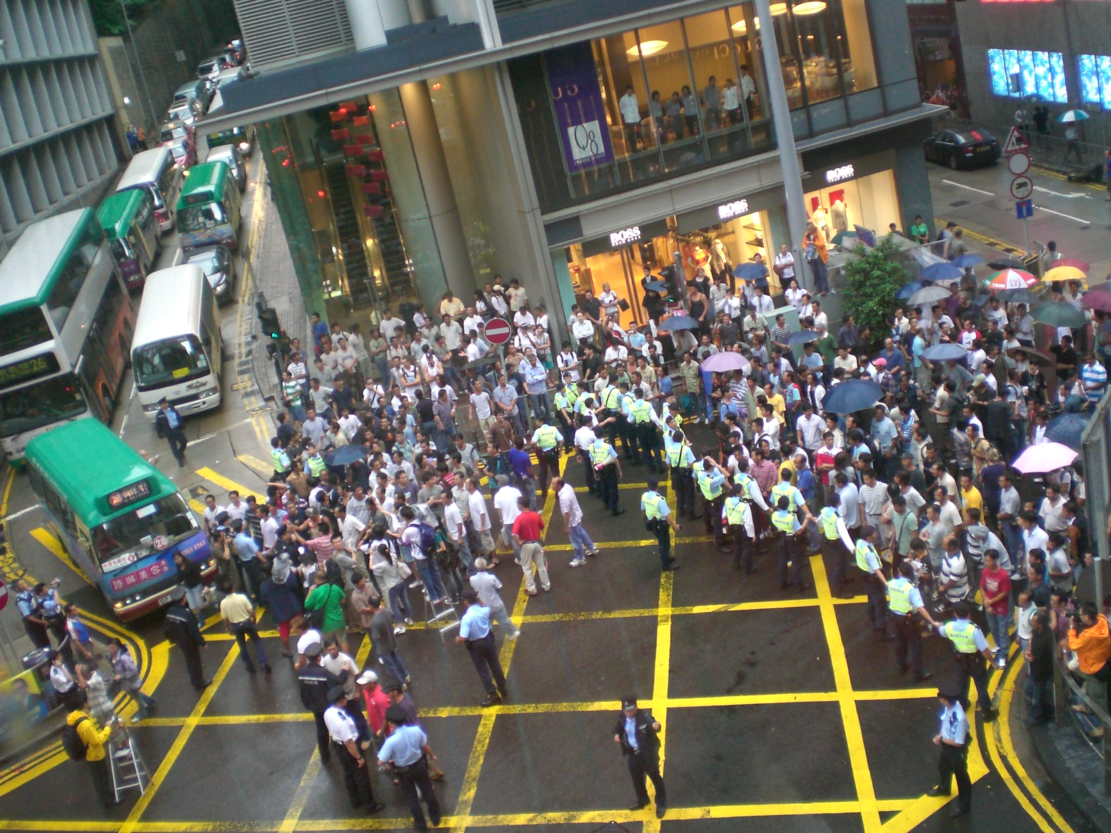 Metal workers' protest in Hong Kong. 2007年香港紮鐵工人爭取加薪事件